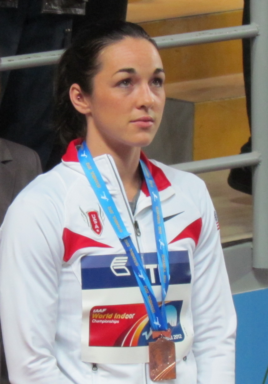 The 2012 IAAF World Indoor Championships in Athletics was the 14th edition of the global-level indoor track and field competition and was held between March 9–11, 2012 at the Ataköy Athletics Arena in Istanbul, Turkey. Nataliia Lupu, Pamela Jelimo, Erica Moore